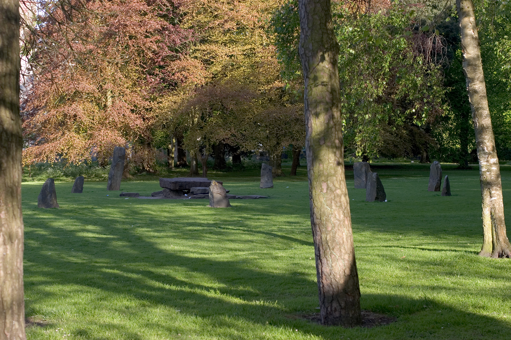 Stone sanctuary, Cardiff, Wales, UK